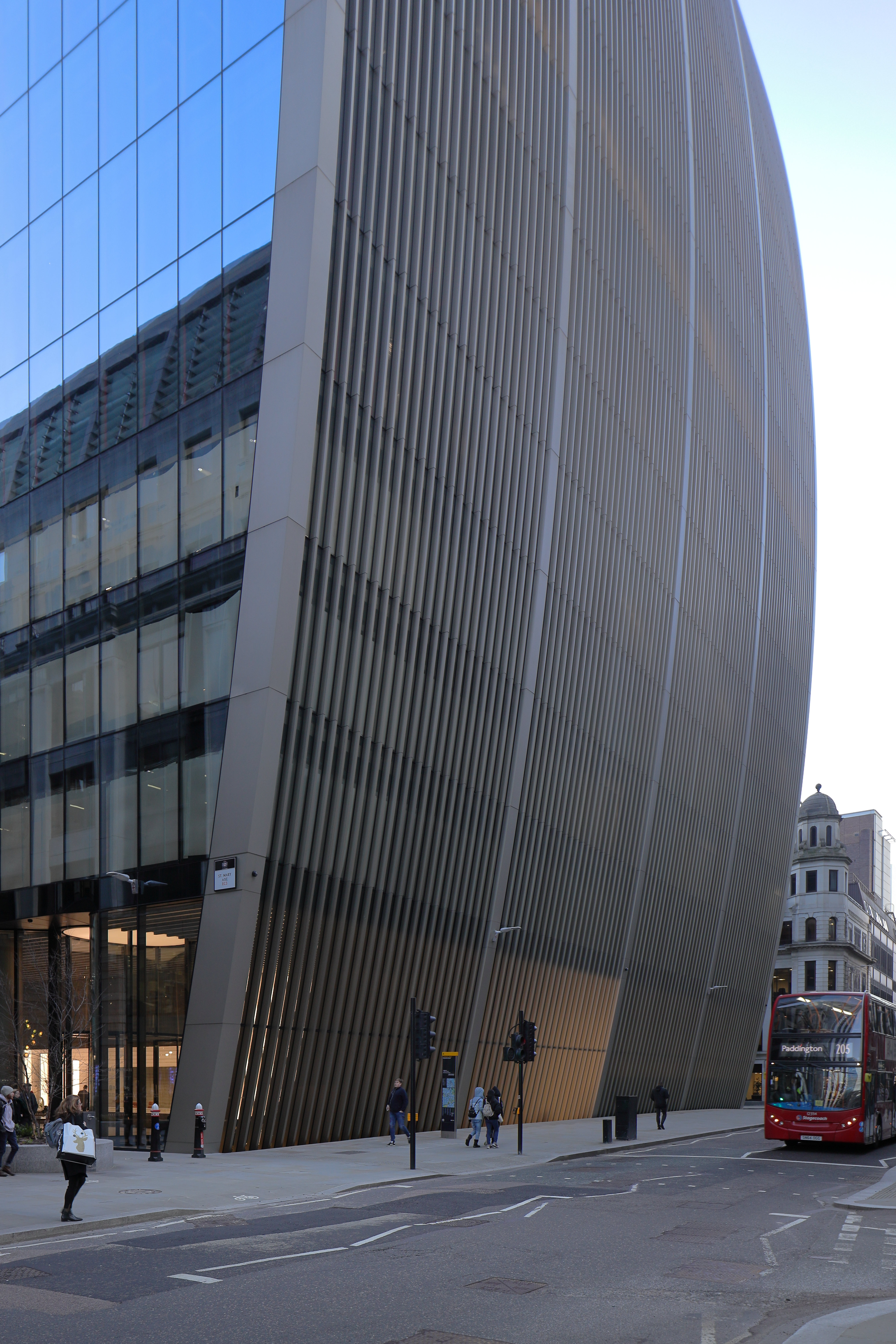 70 St Mary Axe (known as the Can Of Ham) seen from the junction of Bevis Marks and St Mary Axe, looking east-southeast.